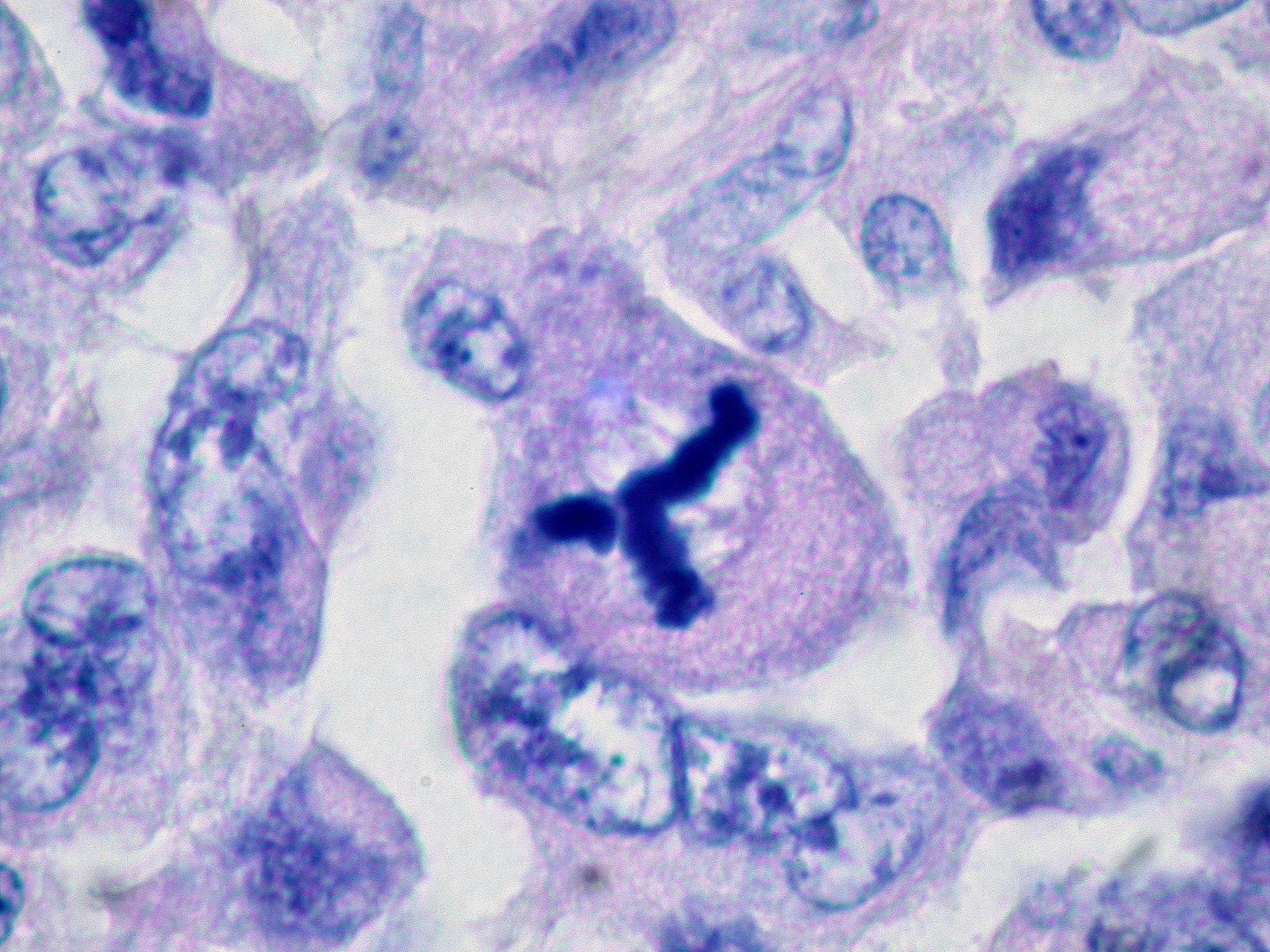 From a case of metaplastic (sarcomatoid) carcinoma of the breast.